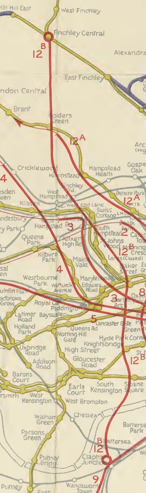 Extract from Map 2 from report, showing proposed new rail Route 12B (underground line from Finchley Central to Clapham Junction)